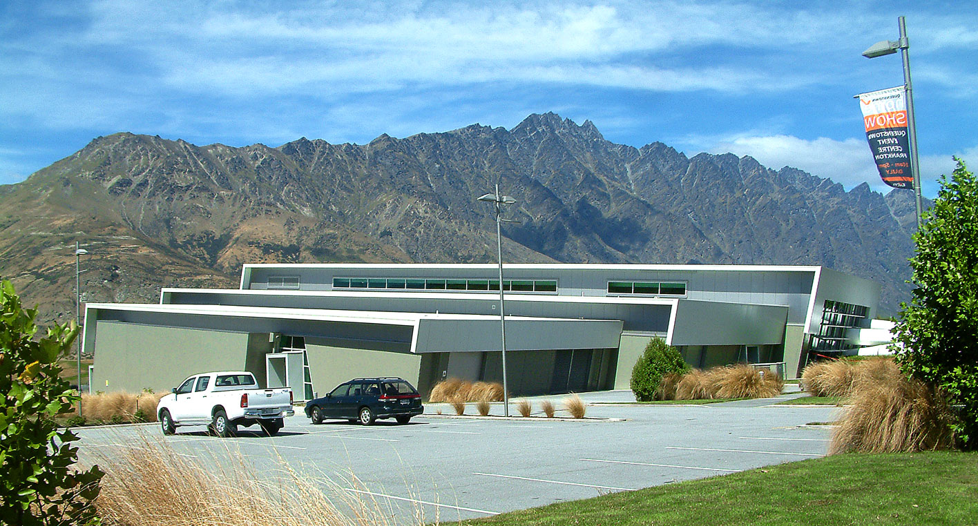 Queenstown Events Centre focusing on the Lakes Leisure Pool area. View towards The Remarkables. Photo from Joe O'connell Drive, Frankton.